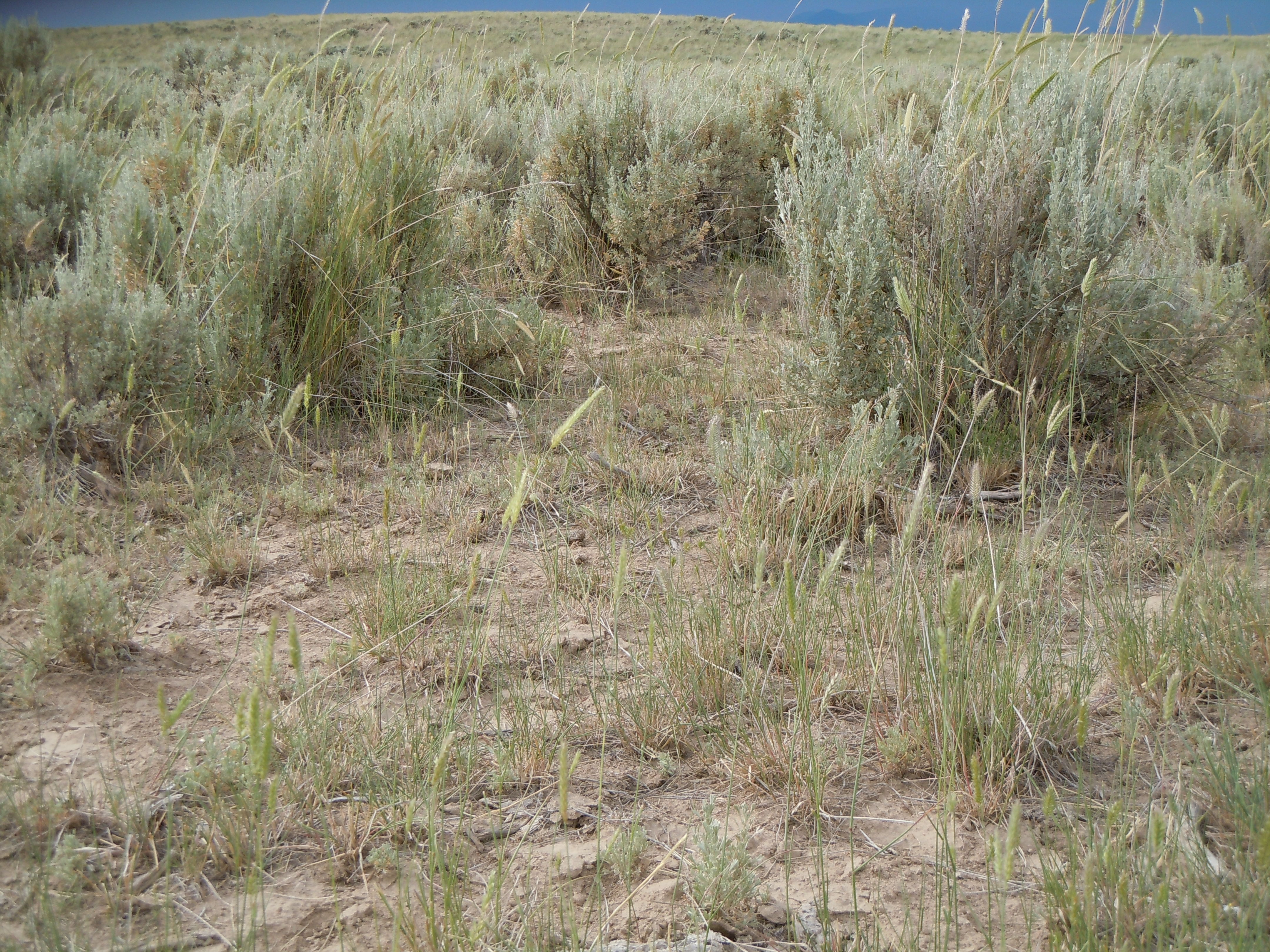 One of many scenes where crested wheatgrass predominates (even if as stubble) on the north side of Big Southern Butte.